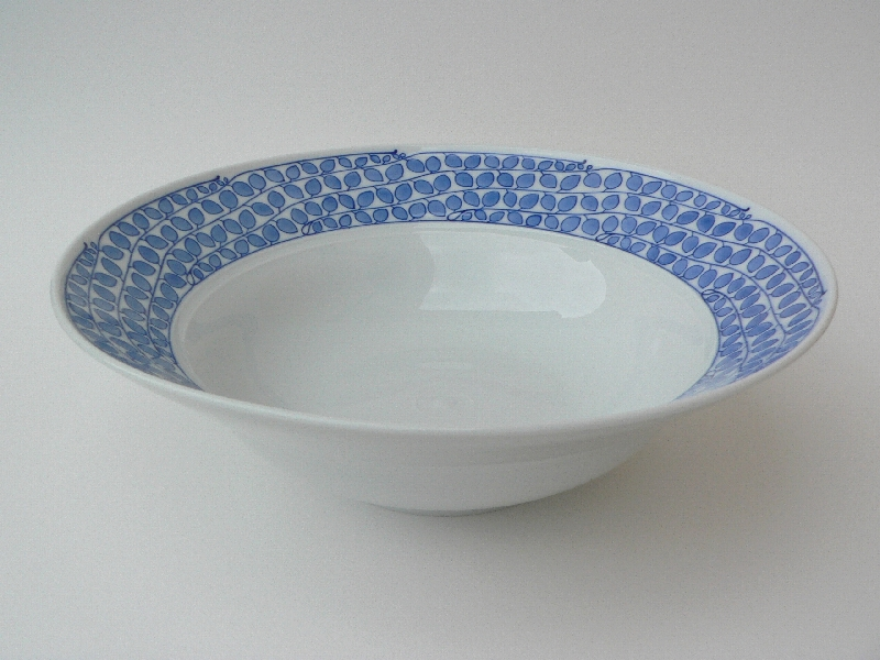 Decor 'Blue panicle after Riemerschmid', Bowl, 32cm